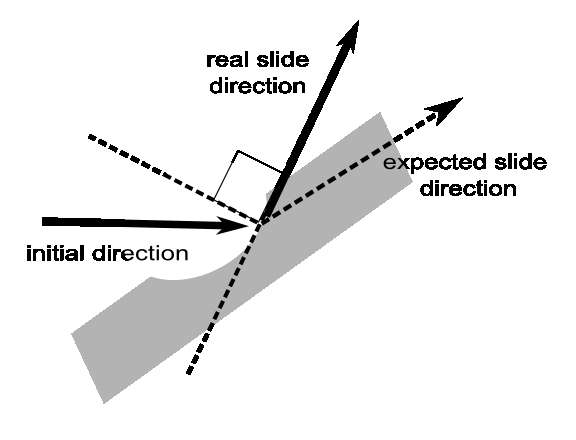 How groove caused by projectile impact affects effective incident angle